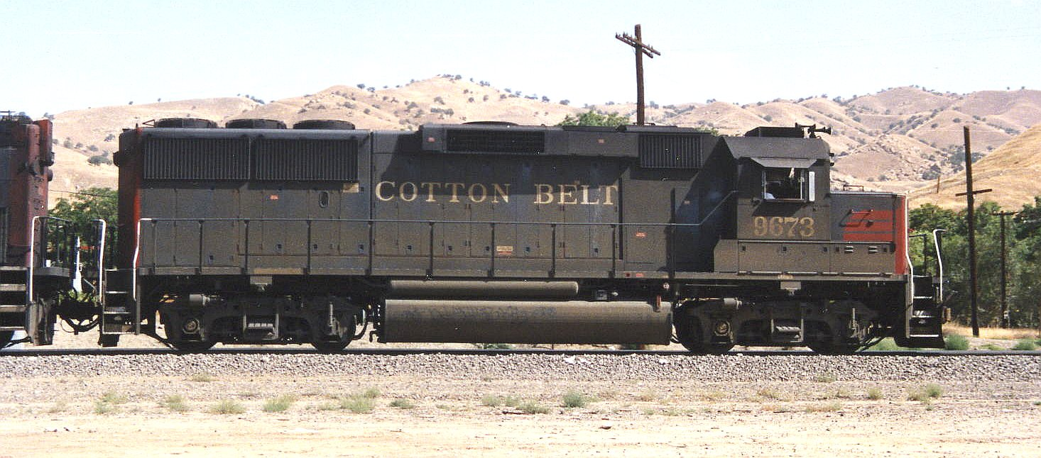 SSW (SP-owned) 9673, an EMD GP60, leads an eastbound train through Caliente, on its way over the Tehachapi Loop in the late 1980s. Photo by Sean Lamb (User:Slambo)